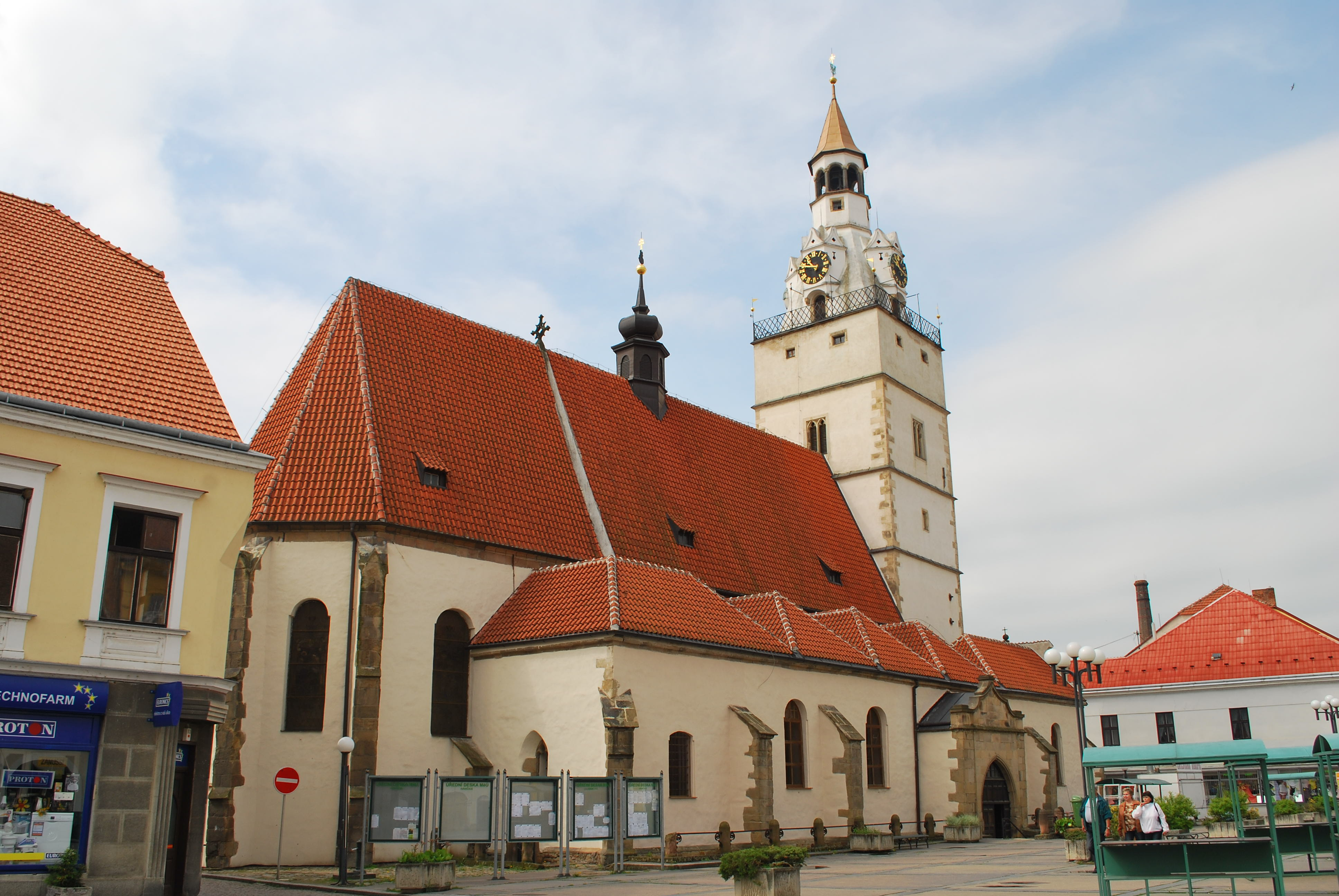 Ivančice in Brno-Country District, Czech Republic. Square Palackého náměstí, Parish Church of the Assumption.